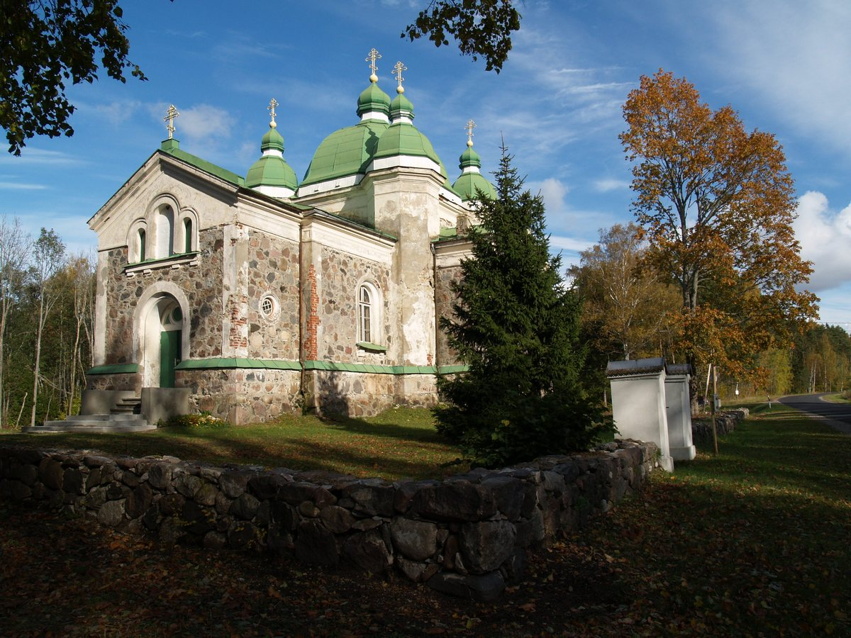 Kõpu churc